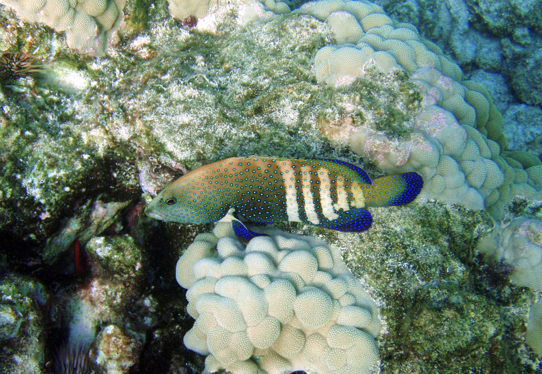 Blue Spotted Grouper,Cephalopholis argus at Kona.